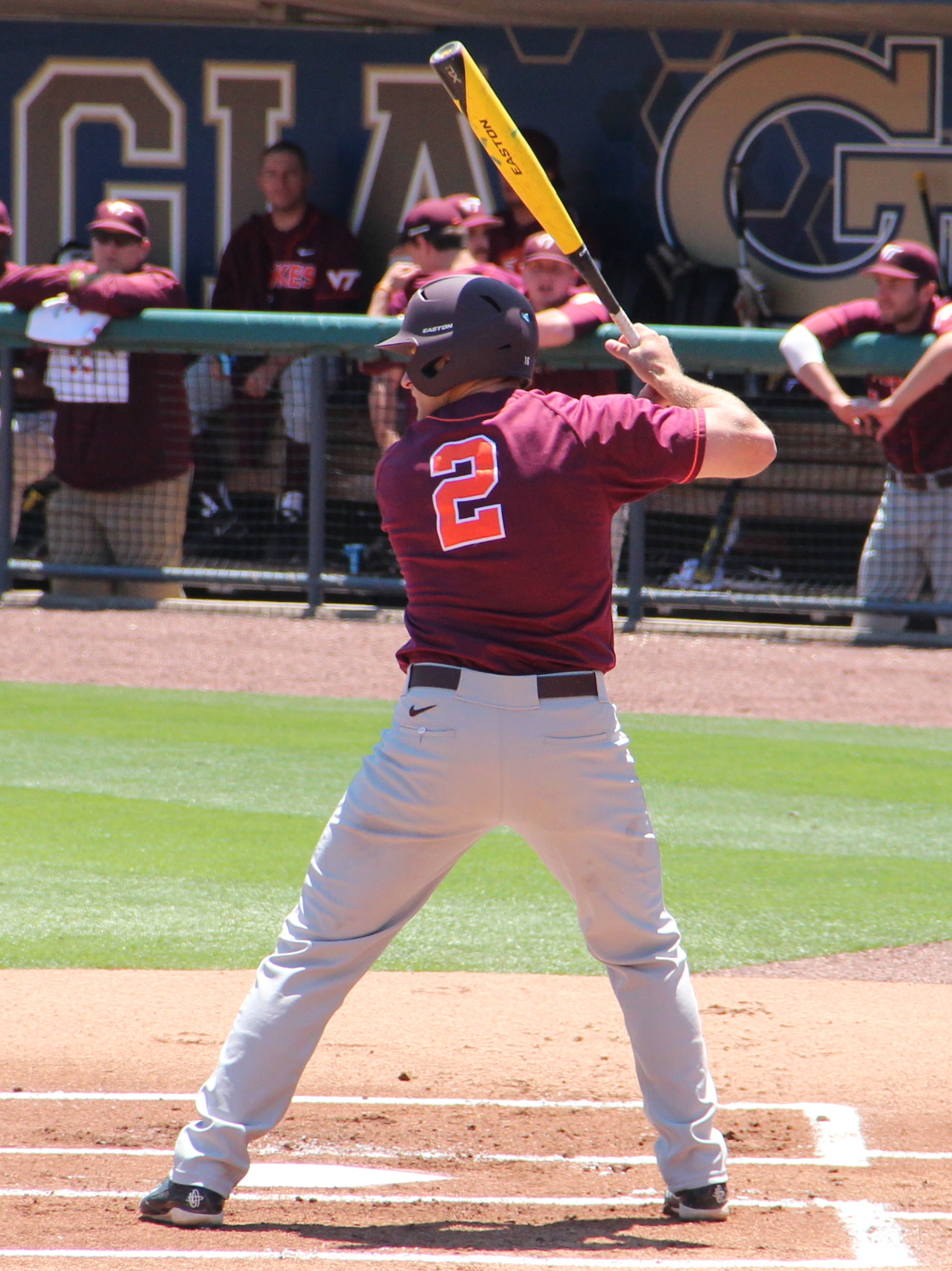 Mark Zagunis batting for Virginia Tech. Georgia Tech Yellow Jackets vs. Virginia Tech Hokies baseball, May 3, 2014.